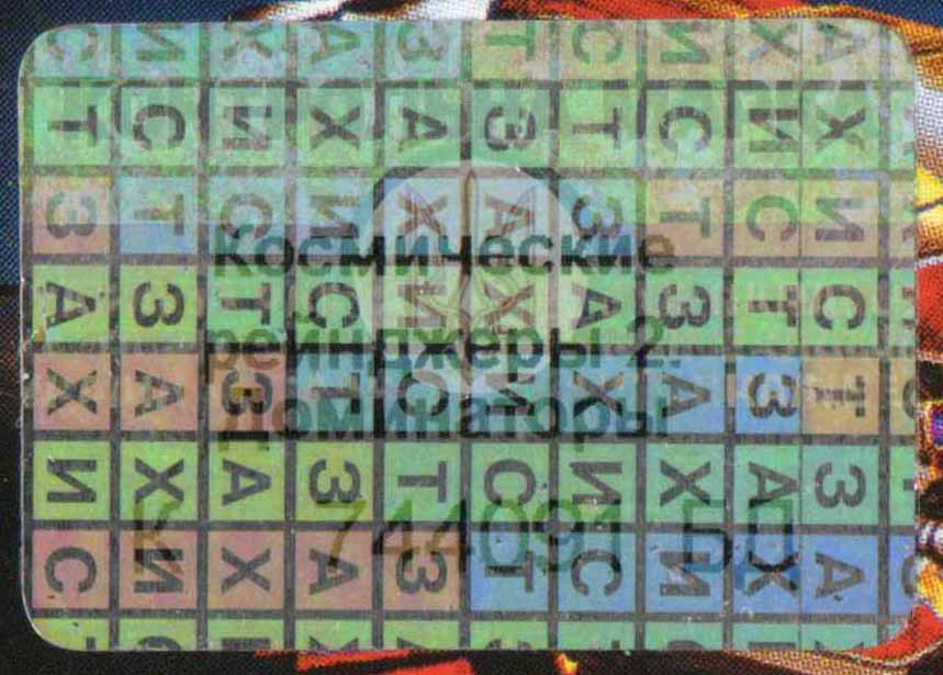 Excise golo stamps krosses # 1 #2 #3 for all of Ukraine 2000s